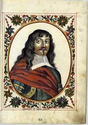 Titulyarnik. 1673 – 1677. Moscow. 212 ff., 332 x 235 mm, paper. Herm. 440. Fol. 133 r.: Portrait of Christian V, King of Denmark.